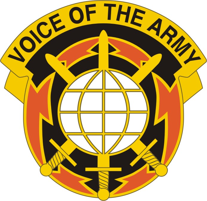 NETCOM/9th SC(A) Distinctive Unit Insignia